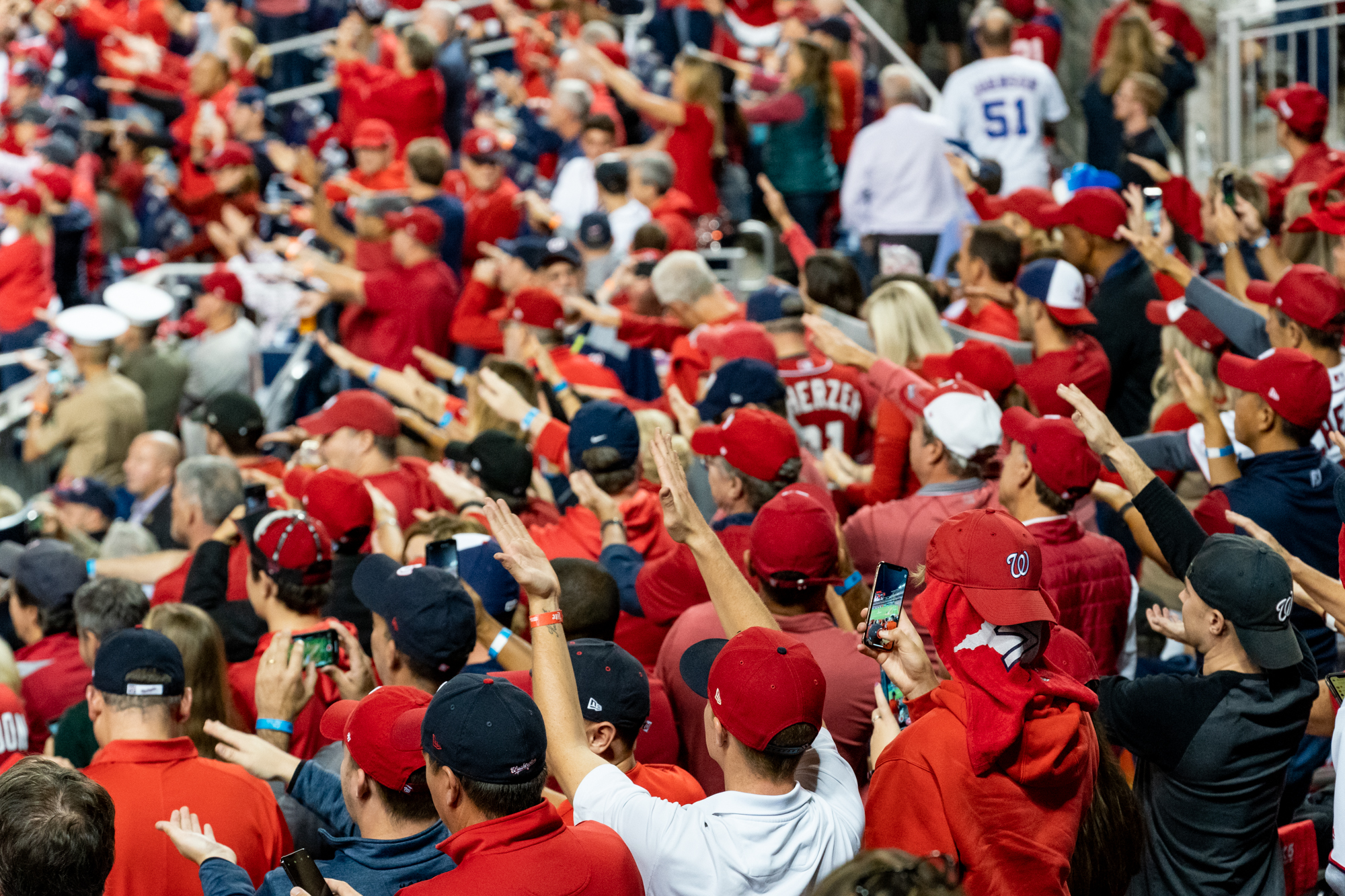 Fans cheer on the Nationals during Game 5 of the MLB World Series between the Washington Nationals and the Houston Astros baseball teams on Sunday evening, Oct 27, 2019, at Nationals Park in Washington, D.C. (Official White House Photo by Andrea Hanks)